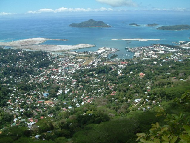 Victoria, capital of the Seychelles